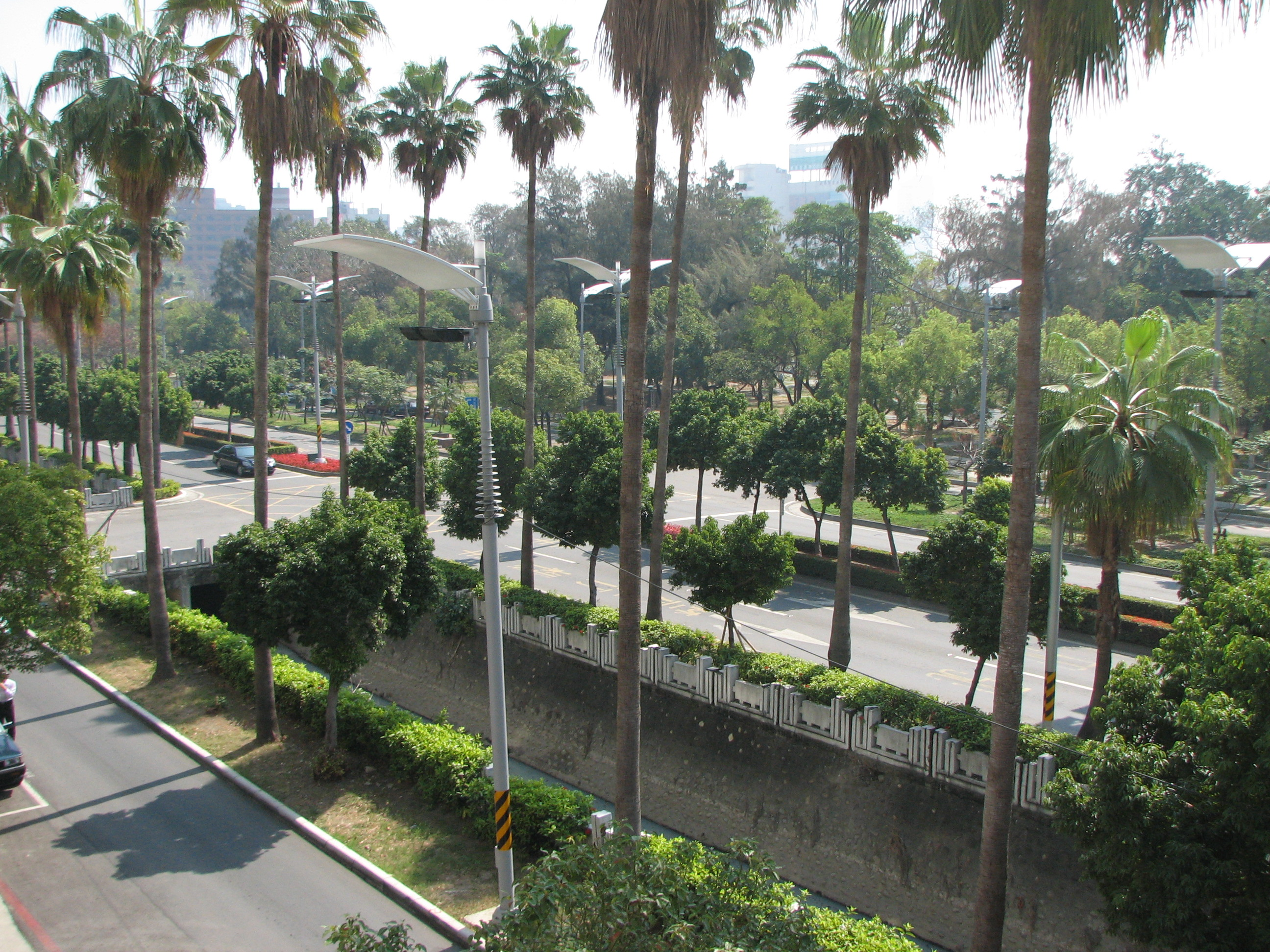 Minsheng Rd. in Kaohsiung City.